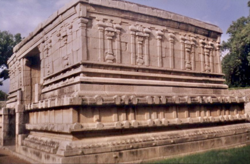 This is the entrance of a temple named paataaleswara at Hampi